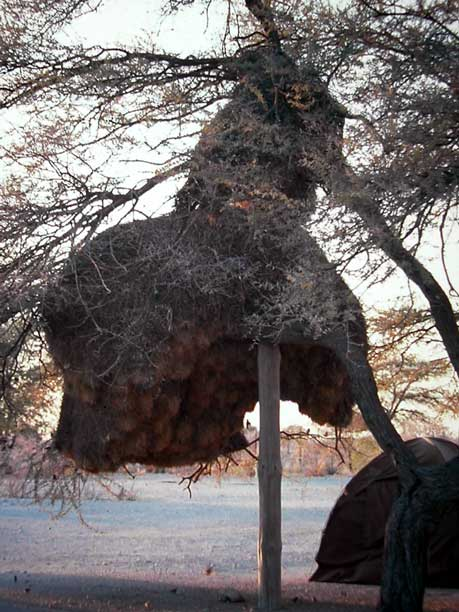 Nest of the Philetairus socius, sociable weaver, in Etosha en: sociable weaver nl: republikeinwever